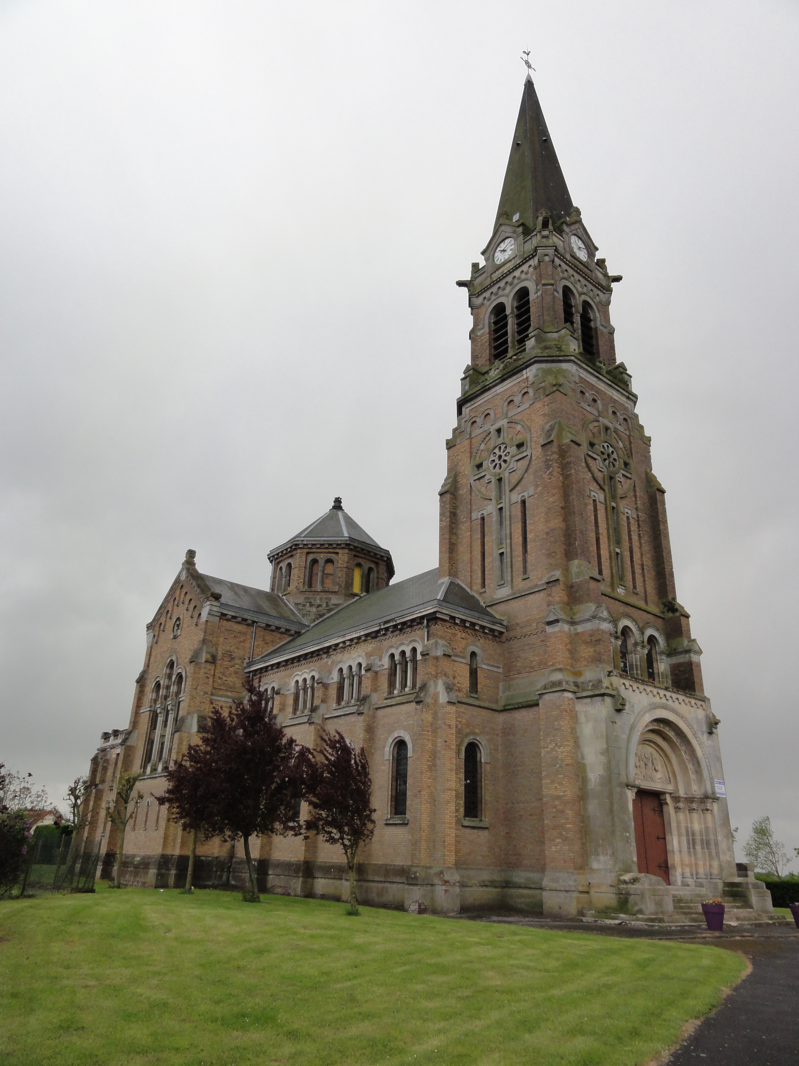 Remigny (Aisne) église